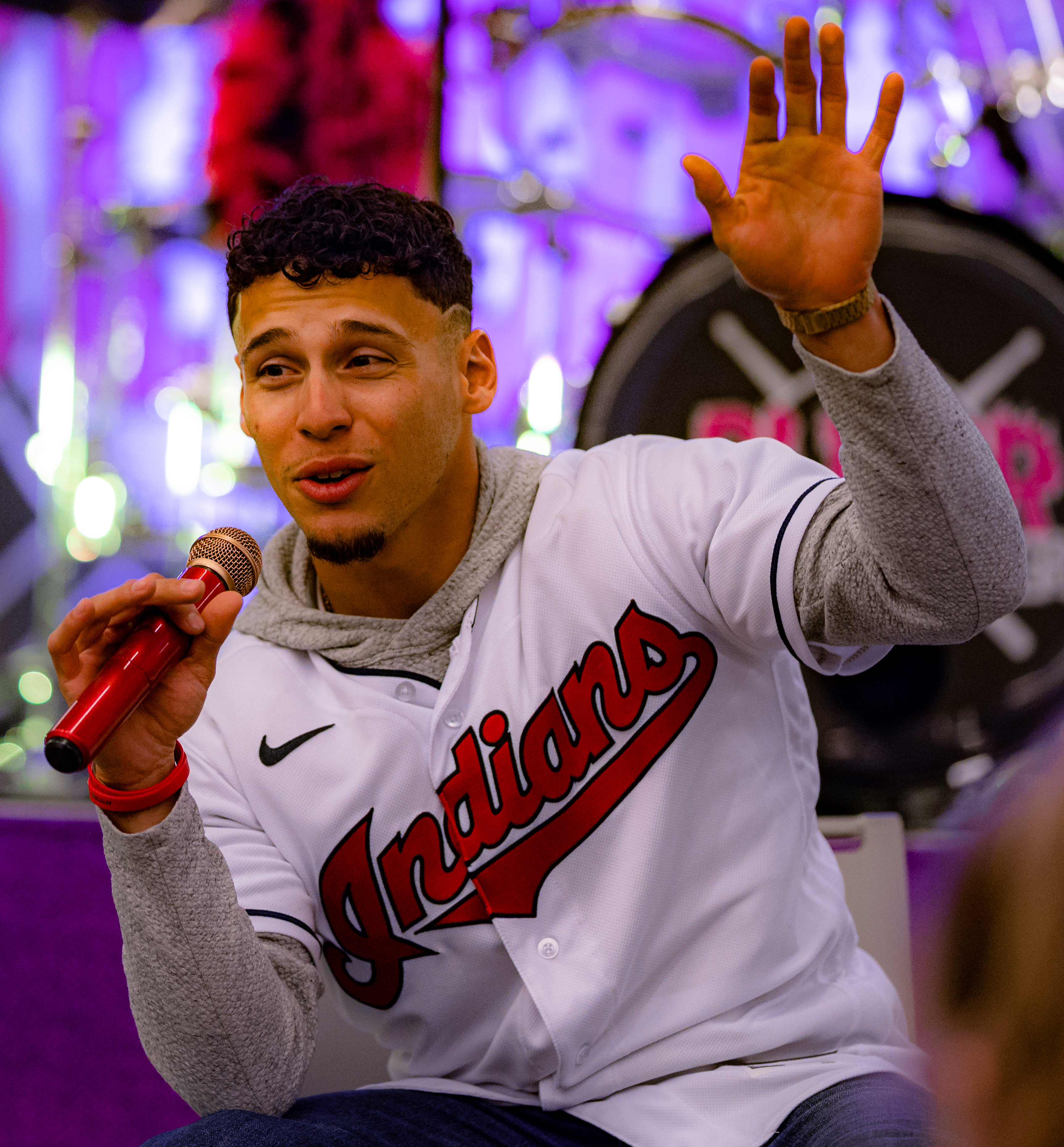 Andrew Velazquez at Cleveland Indians Tribe Fest at Huntington Convention Center of Cleveland in February 2020.